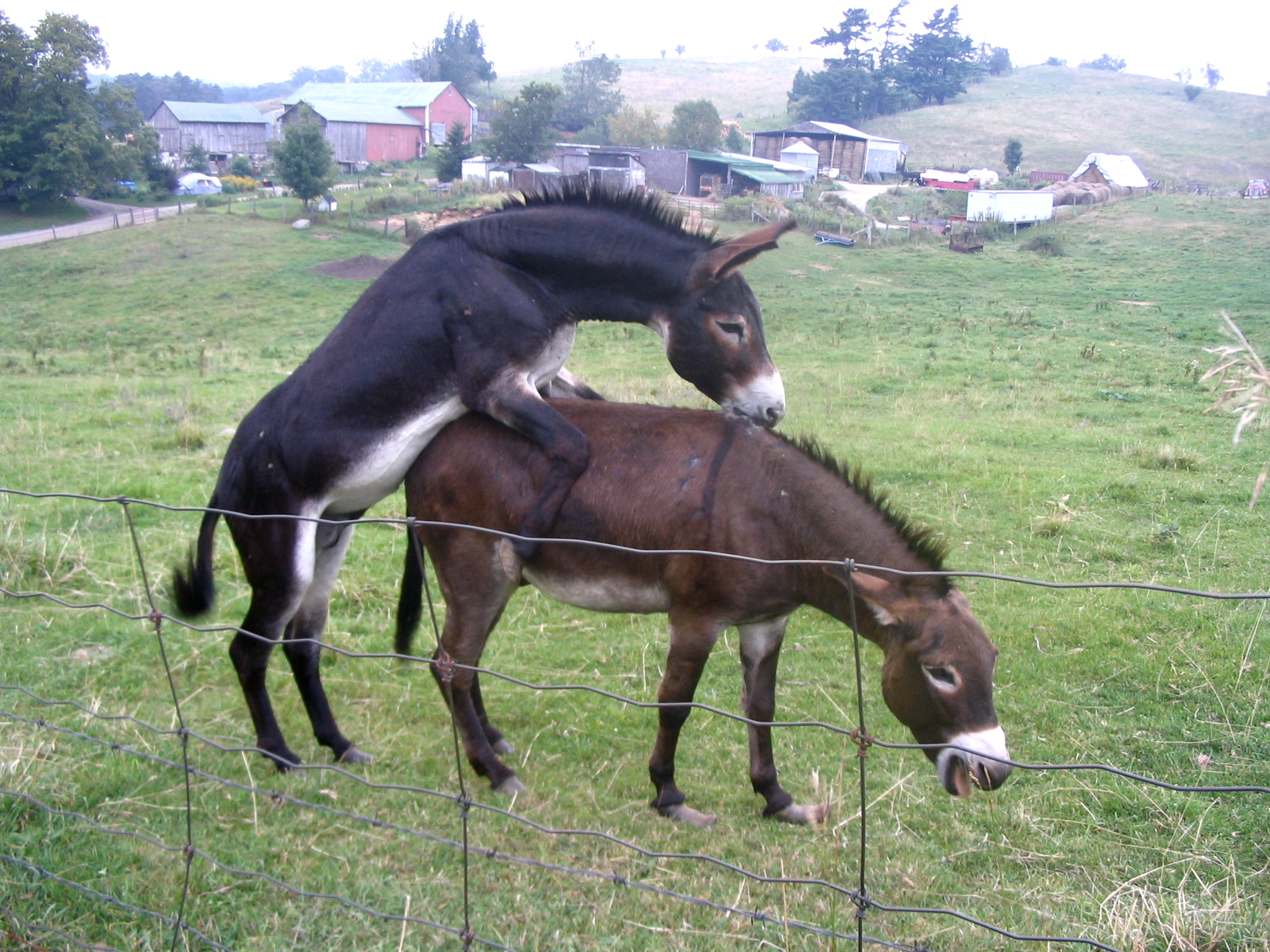 A donkey mounting another donkey.